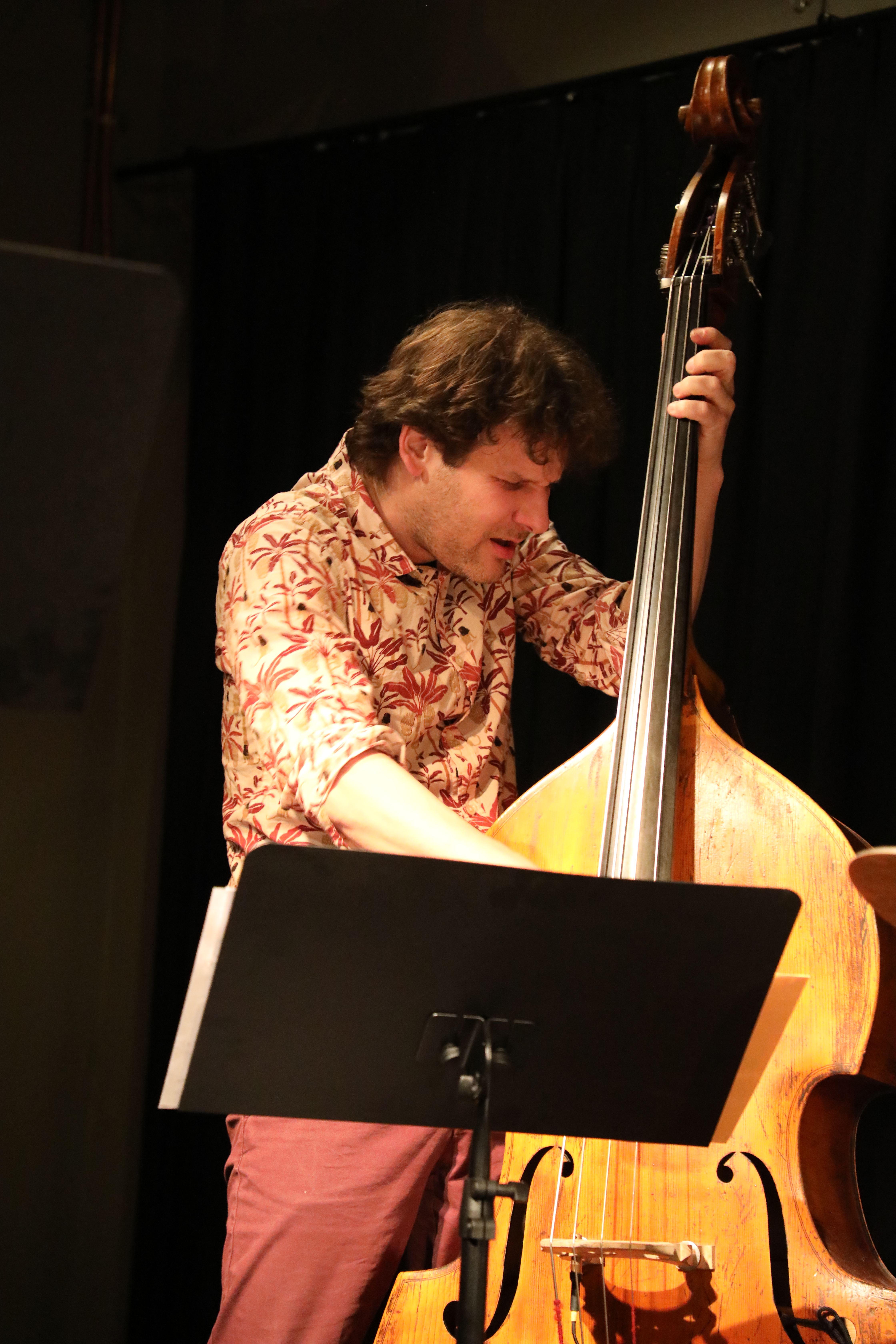 The Fictive Five is the jazz ensemble of composer and saxophone player Larry Ochs. Members are Nate Wooley (tr), Harris Eisenstadt (dr), Pascal Niggenkemper (db) & Ken Filiano (db).